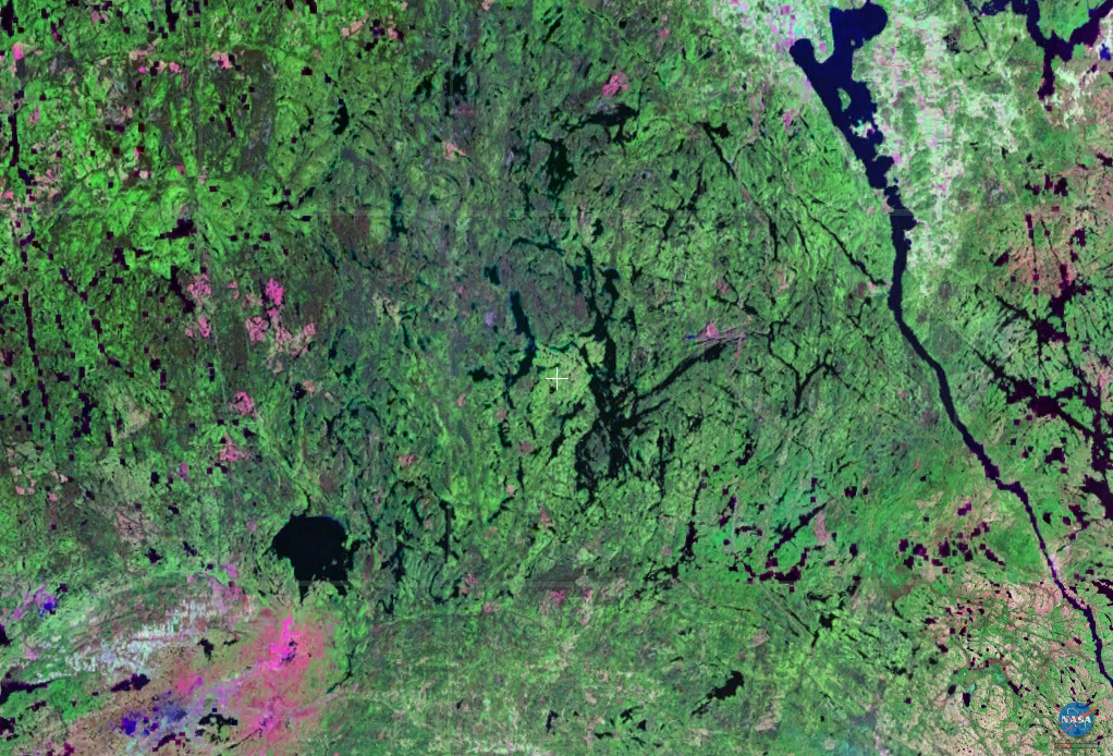 Landsat 7 Pseudo Geocover 2000 overlay showing the area of the Temagami Magnetic Anomaly in Northern Ontario, Canada. The Anomaly has an areal extent of 50×15 km stretching from Lake Wanapitei (lower left of the image, above the pink zone), to Bear (Makominising) island in the east. Cross in the center is at 47, -80.2 . Taken at an altitude of 154 km, showing the terrain only, not the magnetic deviation.